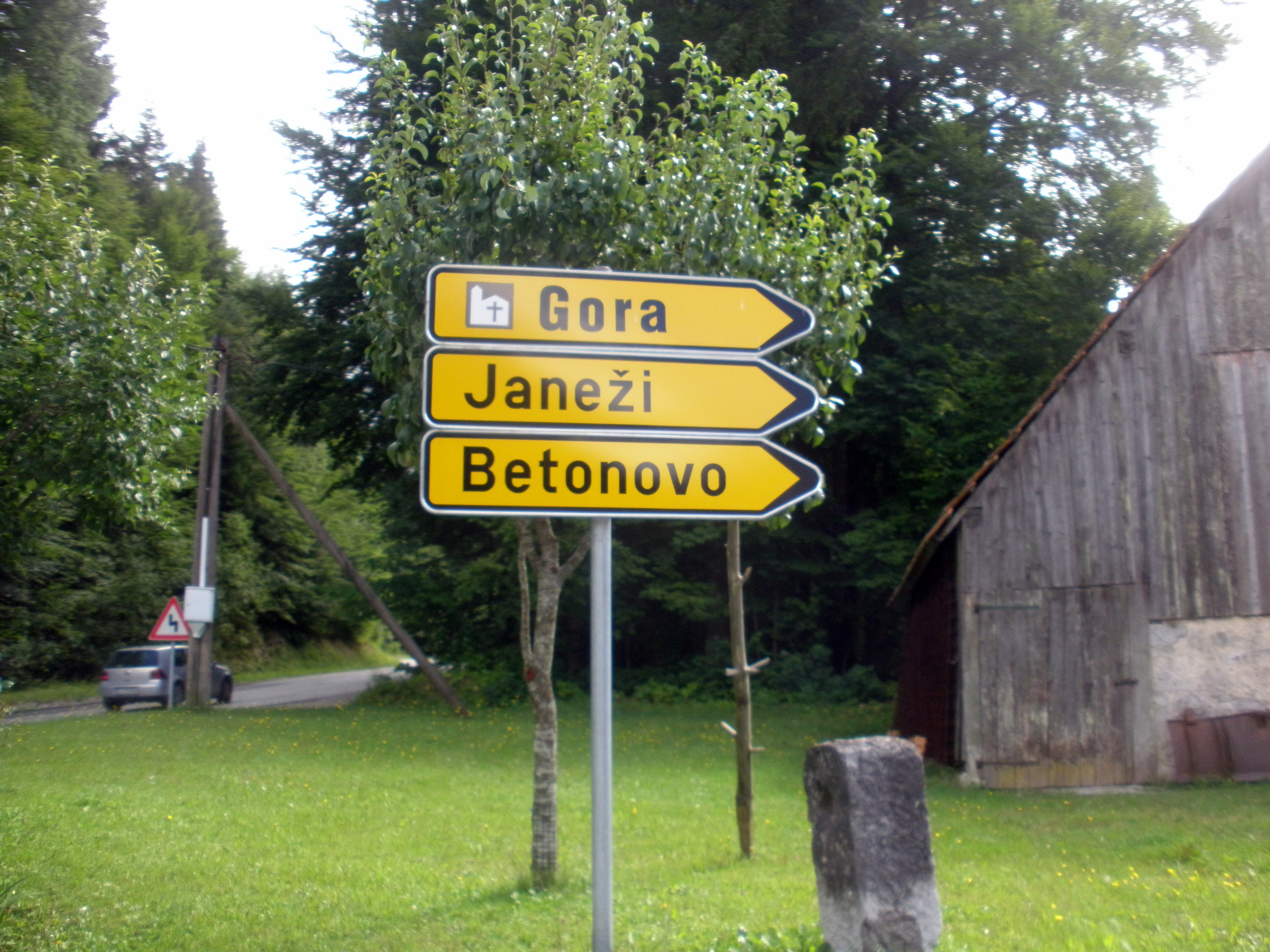 The fingerpost to Gora, Janeži, Betonovo in Kržeti (Municipality of Sodražica), southern Slovenia.